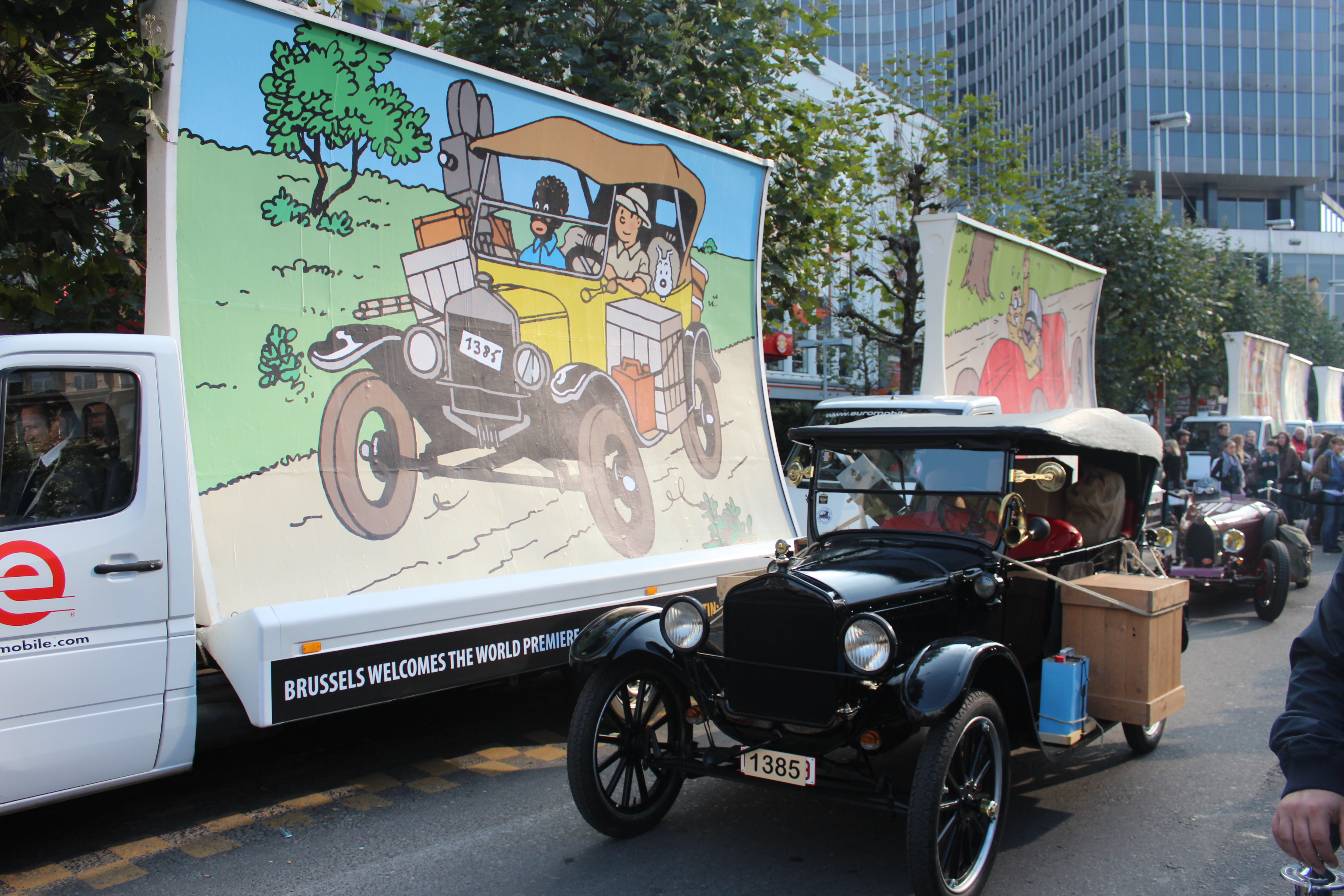 Car depicted in the Tintin comics series, during the events of the world premiere of The adventures of Tintin - The Secret of the Unicorn in Brussels, on 2011-10-22